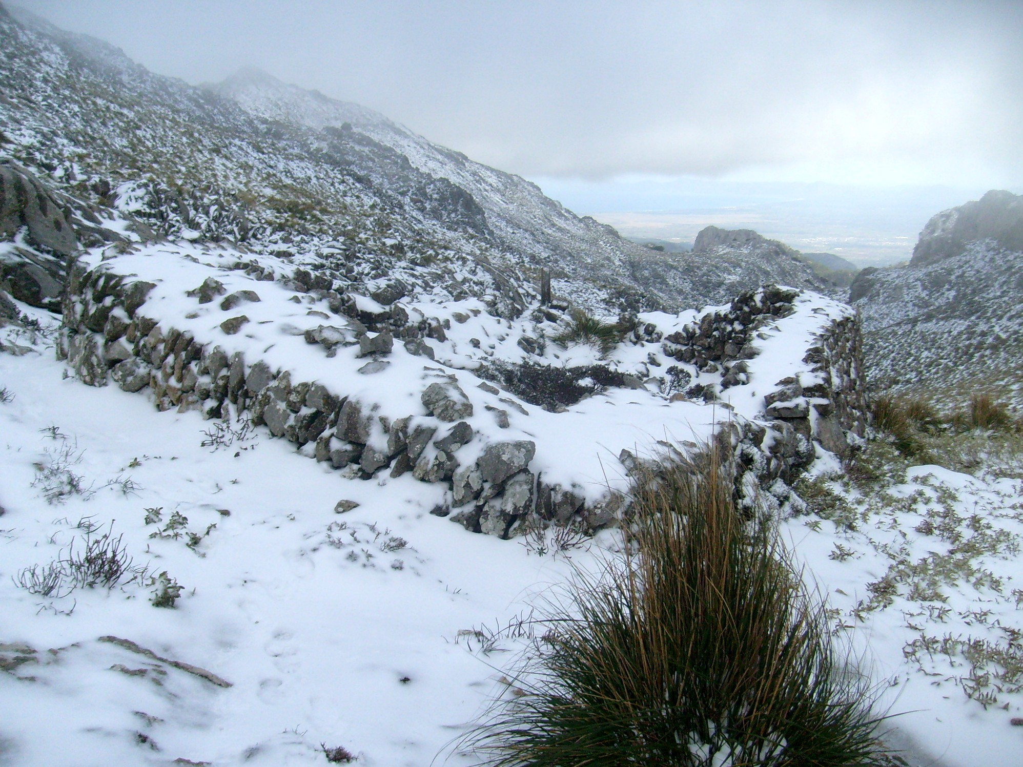 GR 221 - Massanella: "Snowhouse" (casa de neu) in the background: Bahia de Alcudia